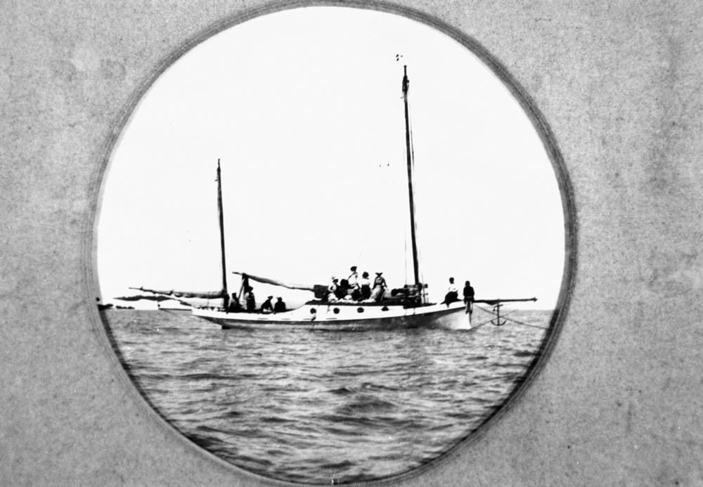 Sunbeam (ship) Associated with Thomas Welsby. (Description supplied with photograph.).